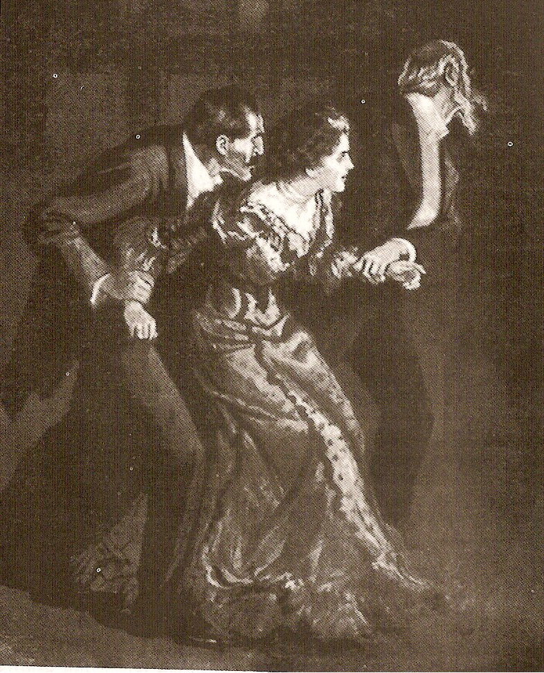 Ilustration "The Adventure of Wisteria Lodge."